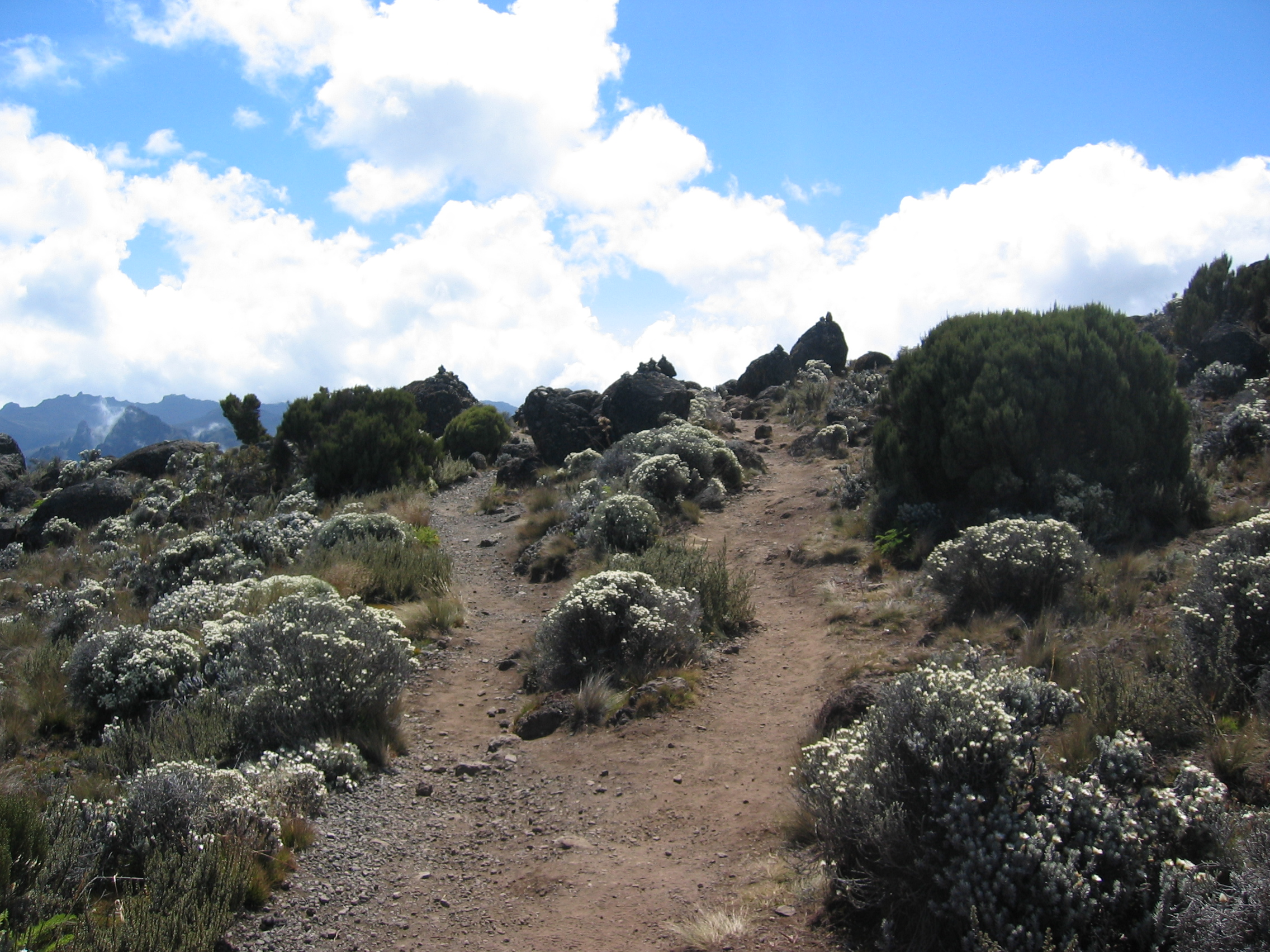 I am the author of this work (Skeptic_cdn)